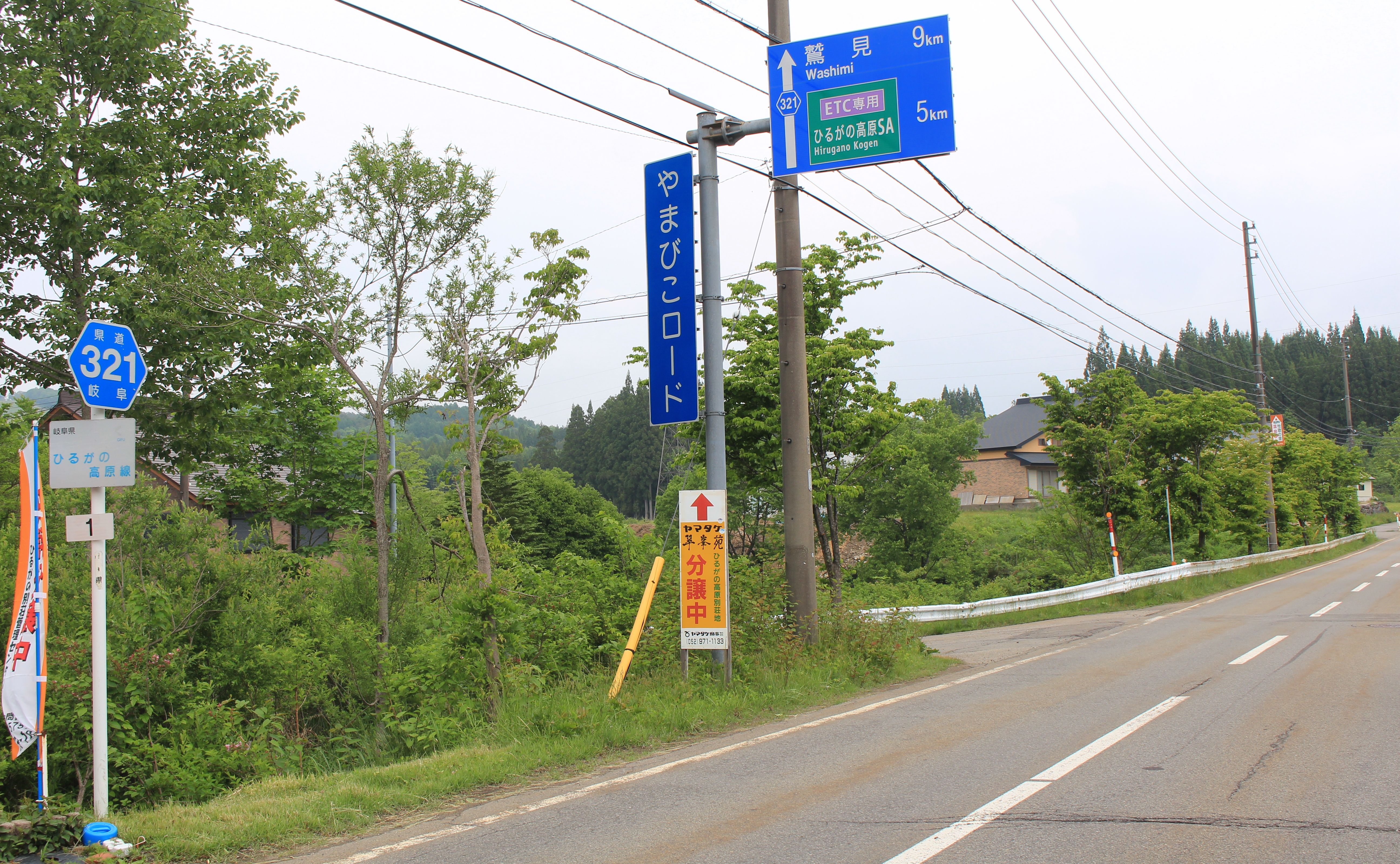 Gifu Prefectural Road Route 321 in Hirugano, Takasu, Gujo, Gifu prefecture, Japan.